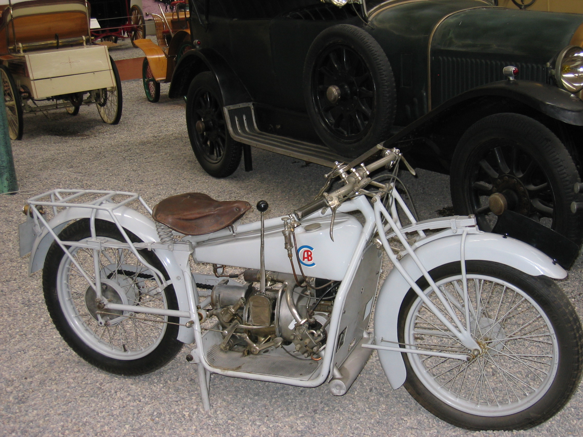 ABC motorcycle (French licence production of the English ABC) with a stickshift(hand operated) @ the Schlumpf collection in Mulhouse, France. I took this picture Summer 2006.